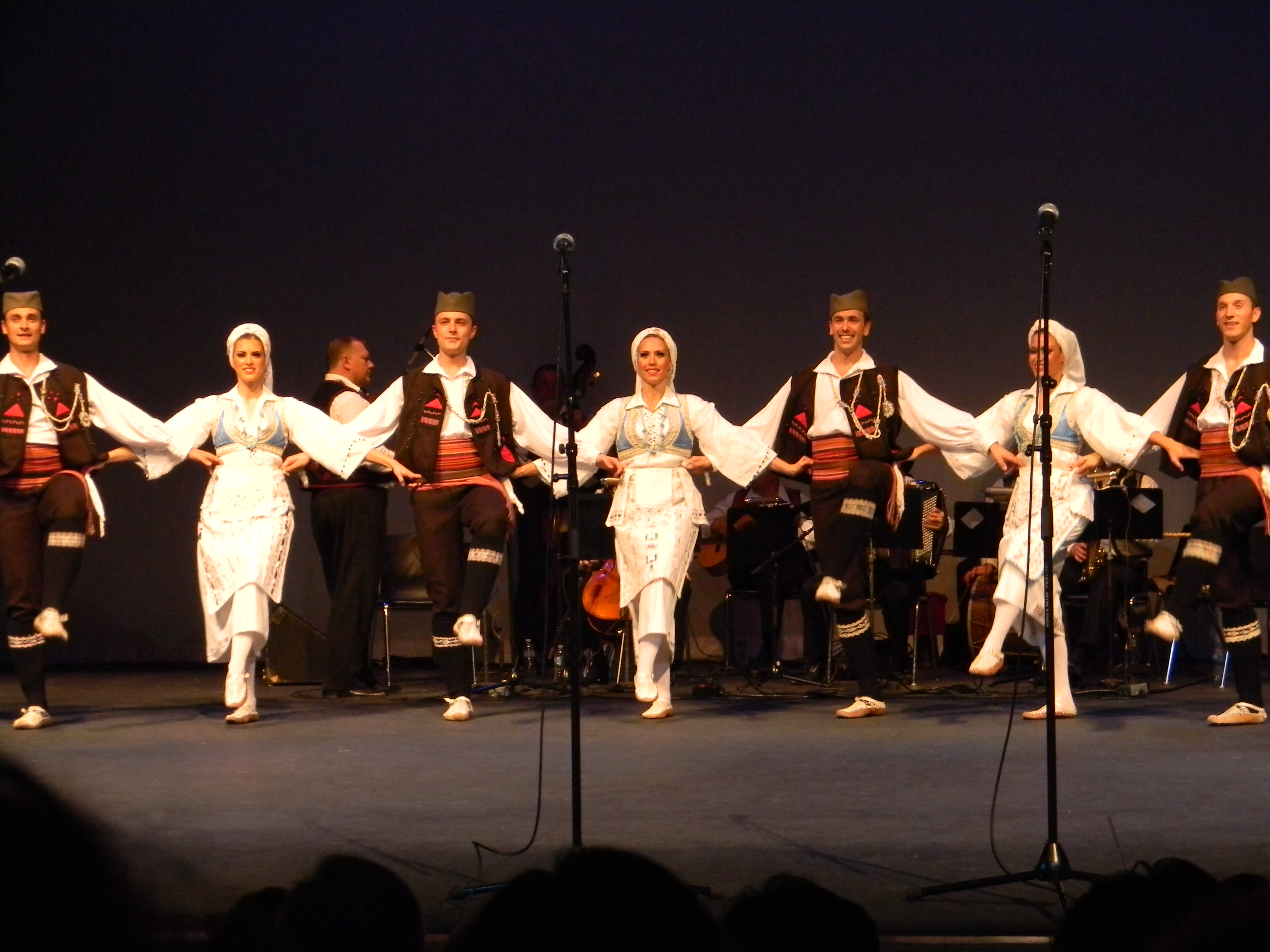 The Serbian National Folk Dance Ensemble Kolo presents Dances from Gnjilane. Hamilton, Canada - 2011. Choreographer Dejan Milosavljevic